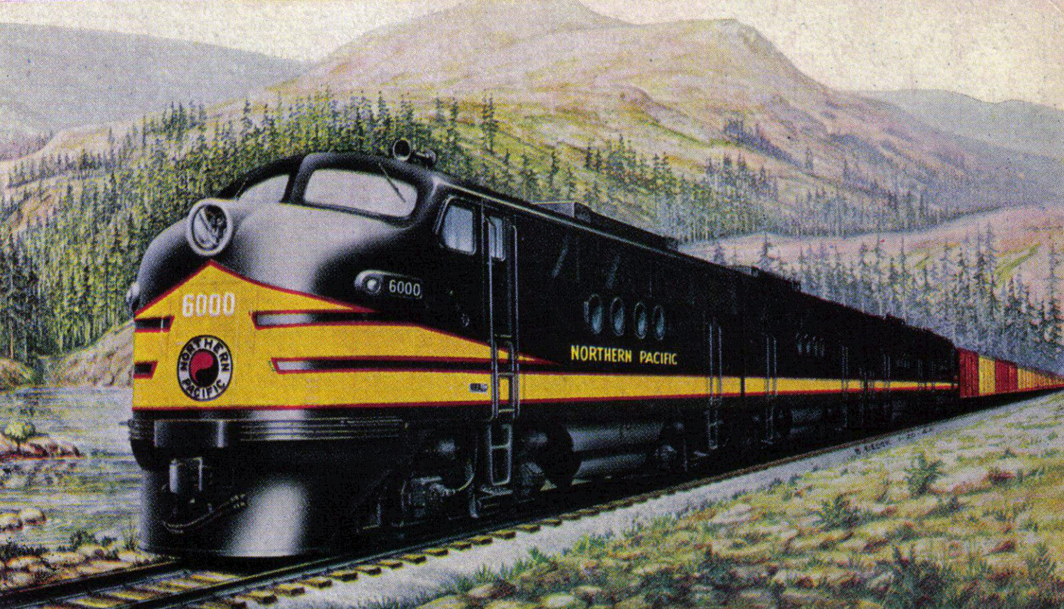 Postcard depiction of a Northern Pacific EMD FT locomotive for freight service.